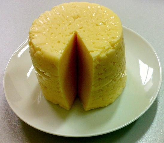 Liliput Cheese from Great Poland.